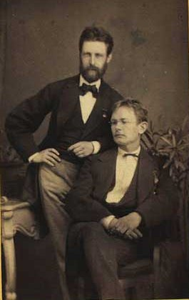 Photo of Carl Christian Frederik Jacob Thomsen (1847-1912) and Kristian Zahrtmann (1843-1917)